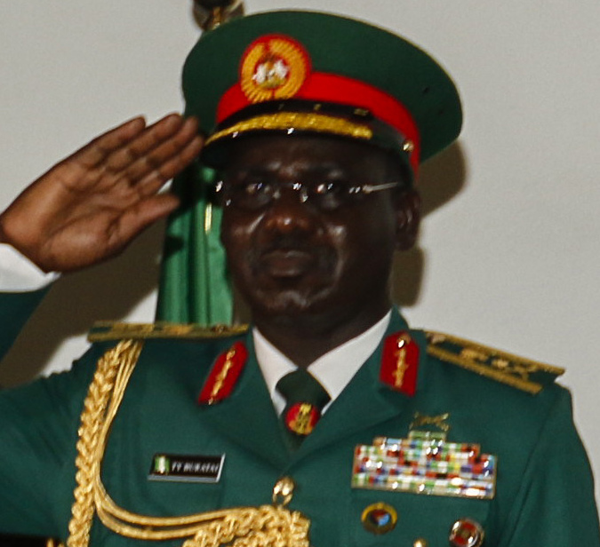 From left to Right, Nigerian Lt. Gen. Tukru Yusuf Buratai, Chief of Army Staff, Gen. Abayomi Gabriel Olonisakin, Chief of Defense Staff, The Honroable David Young, American Deputy Chief of Mission at the U.S. Embassy in Nigeria and U.S. Army Gen. James C. McConville, 36th Vice Chief of Staff, stand for playing of the National Anthem during the African Land Force Summit opening ceremony. ALFS 18 is a weeklong seminar bringing together land force chiefs from across Africa for candid dialogue to discuss and develop cooperative solutions and improve trans-regional security and stability. (U.S. Army photo by Spc. Angelica Gardner)